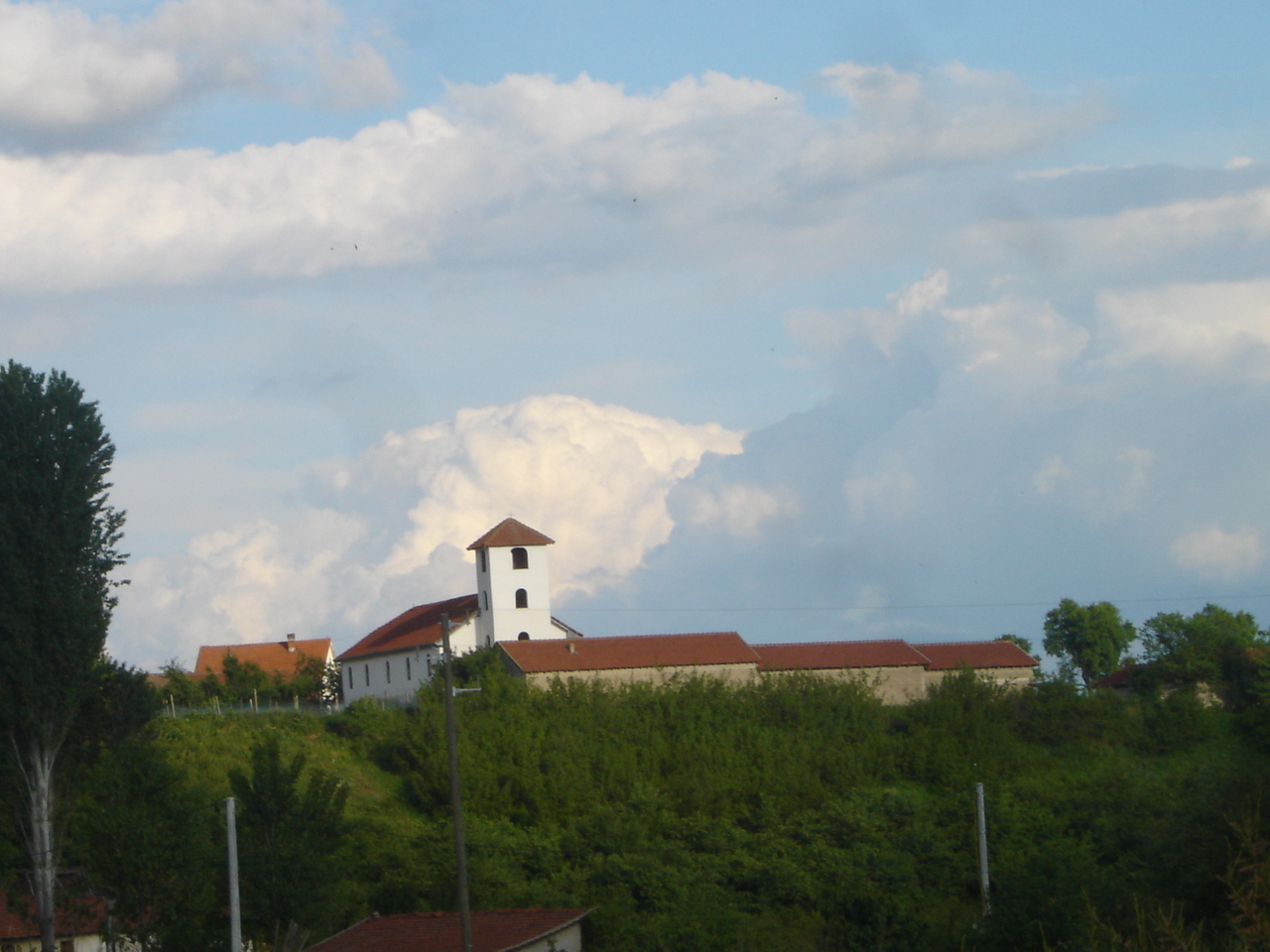 village of Dobrošinci, in Vasilevo Municipality, near Strumica, Macedonia